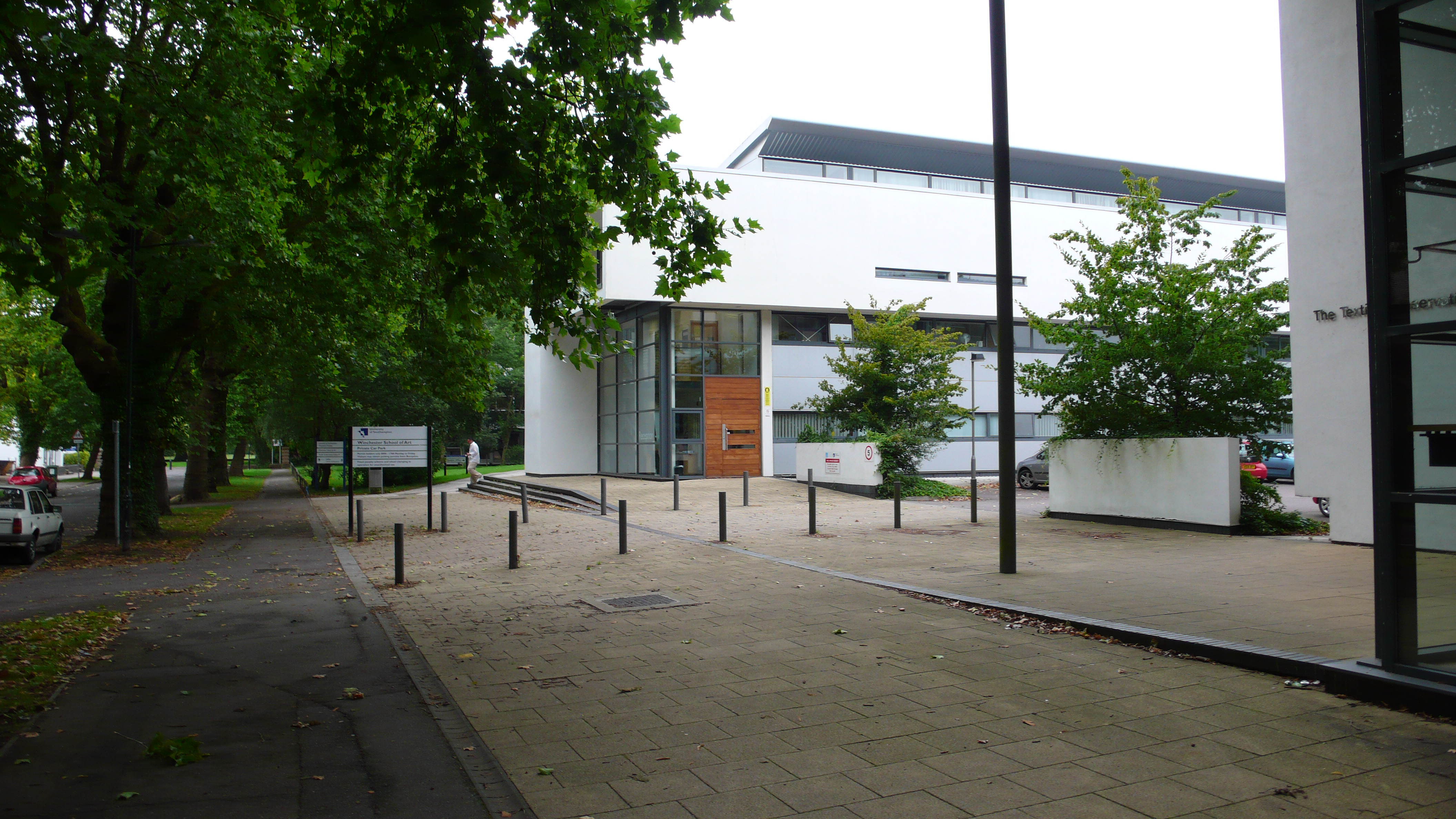 Main reception, Winchester School of Art